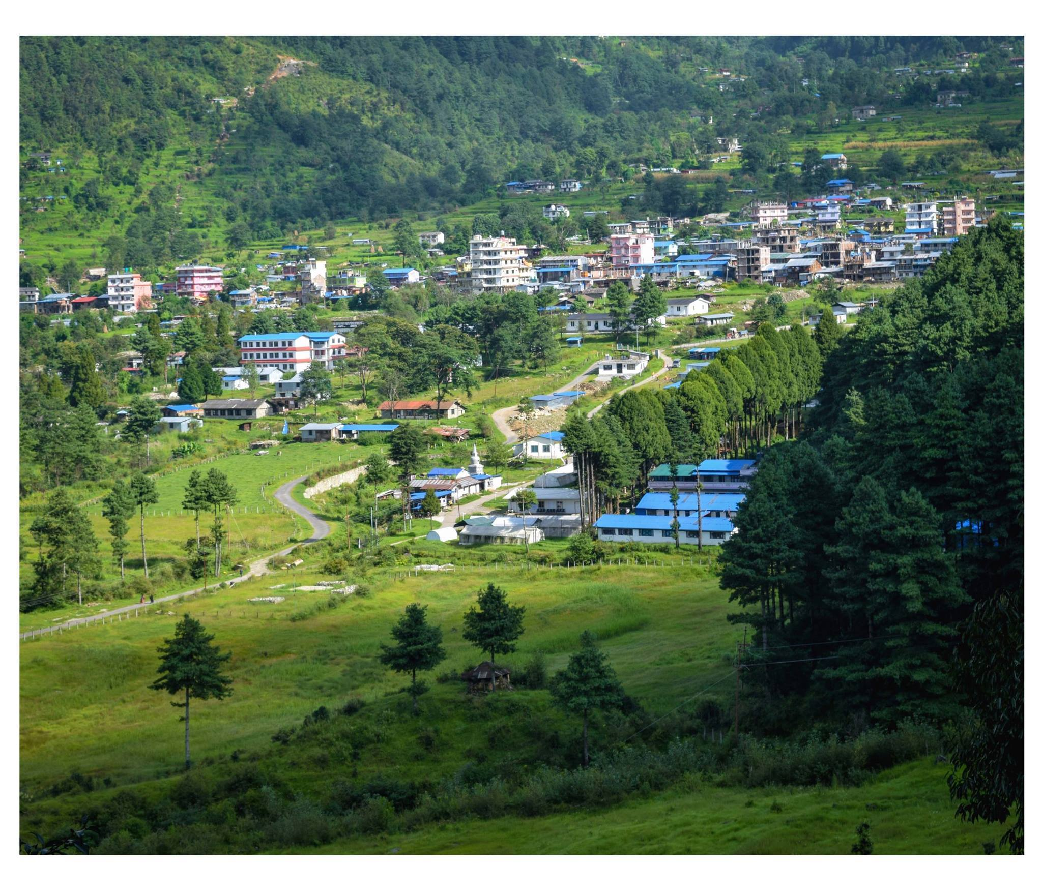 This photo has been taken in the country: Nepal